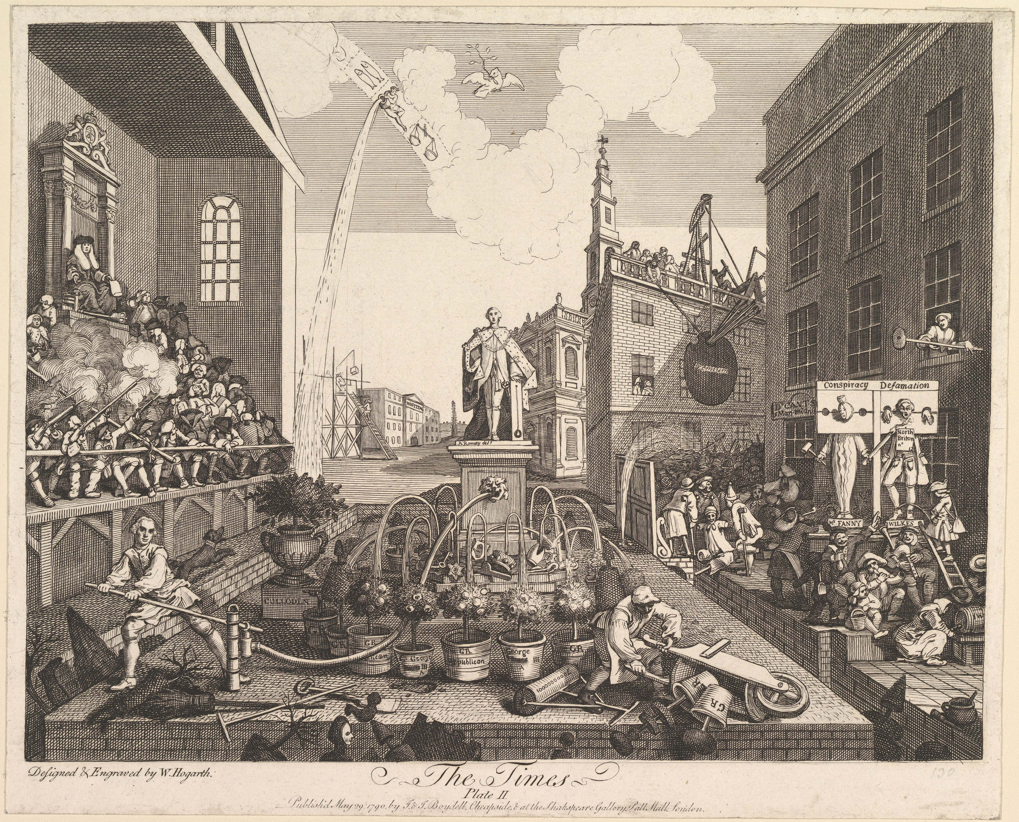 Print; Prints